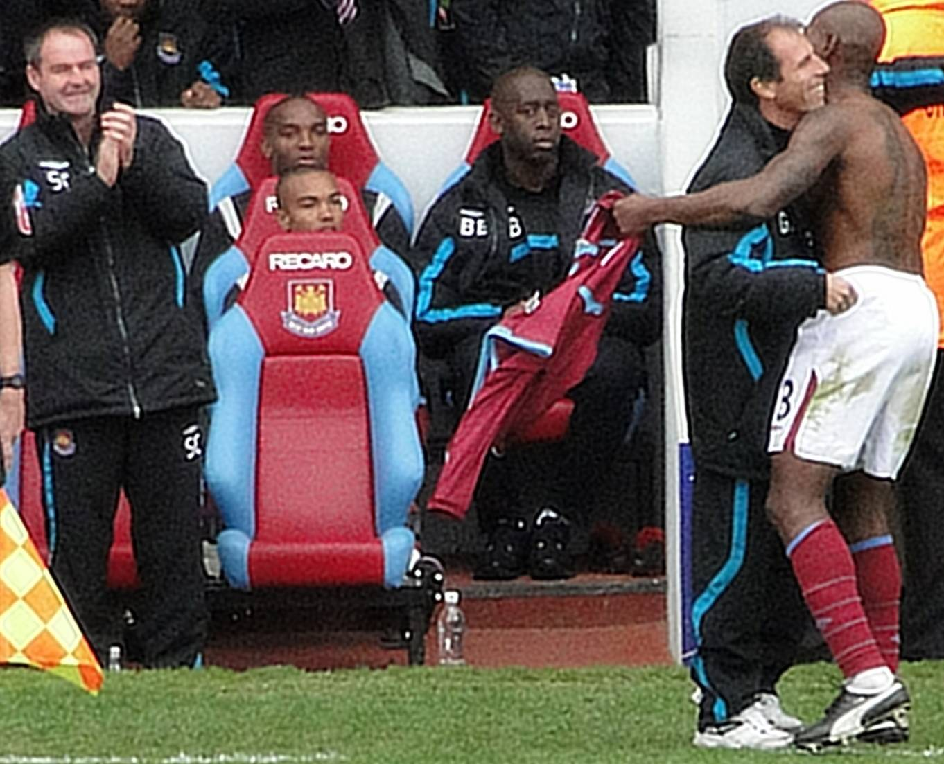 West Ham United player Luis Boa Morte celebrates with manager Gianfranco Zola after scoring a goal against Manchester City FC in his only game of the 2009-10 season